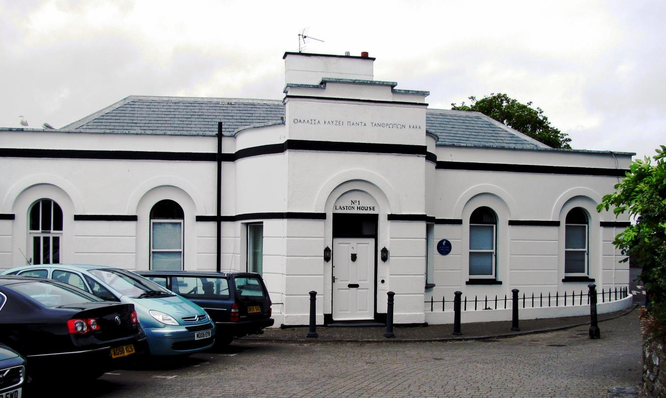 Former Assembly Rooms and Baths, Tenby, Pembrokeshire, South Wales